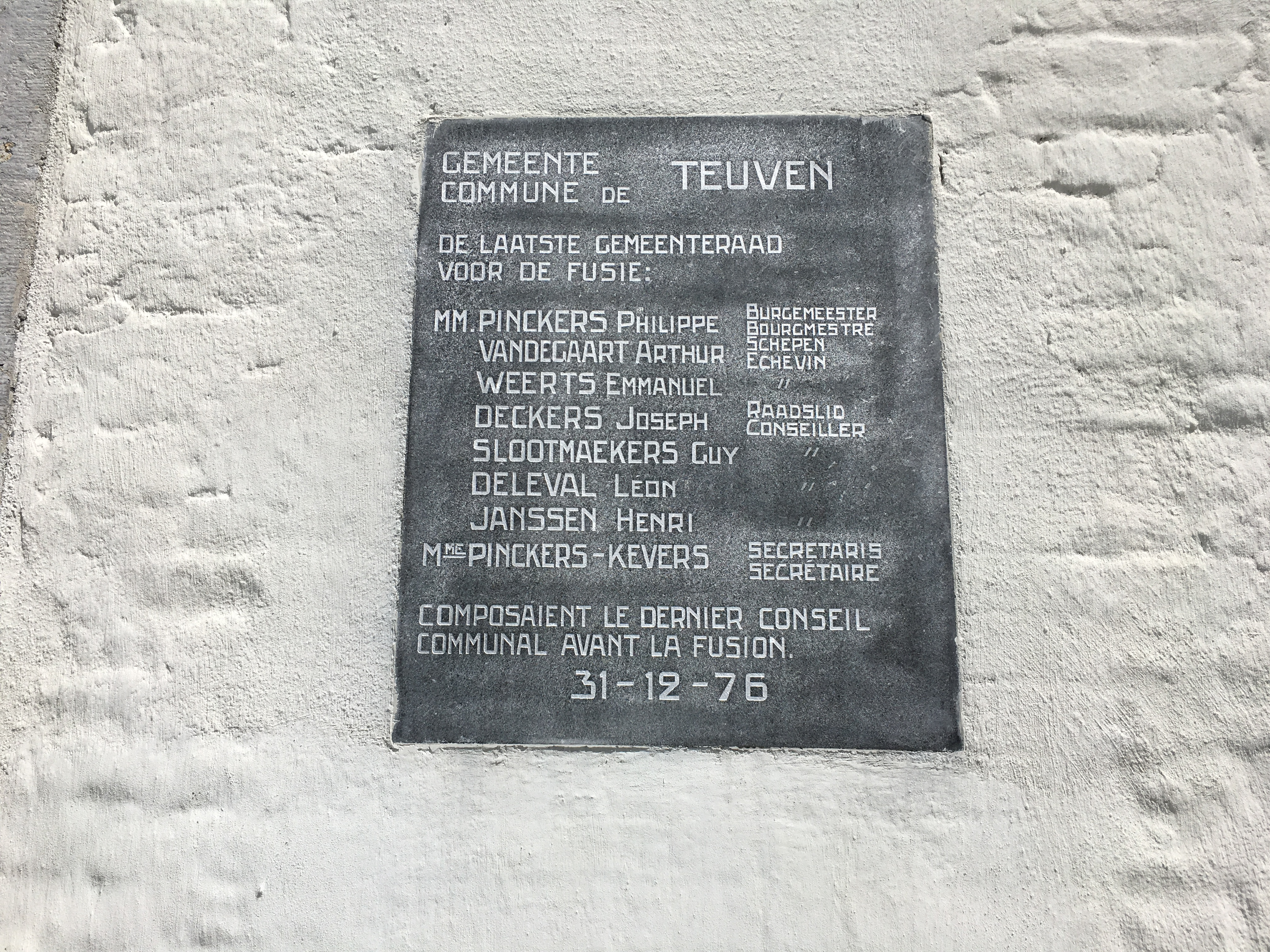 Wandtafel mit Information zur letzten Gemeinderatssitzung in Teuven vor der Eingemeindung am 31. Dezember 1976